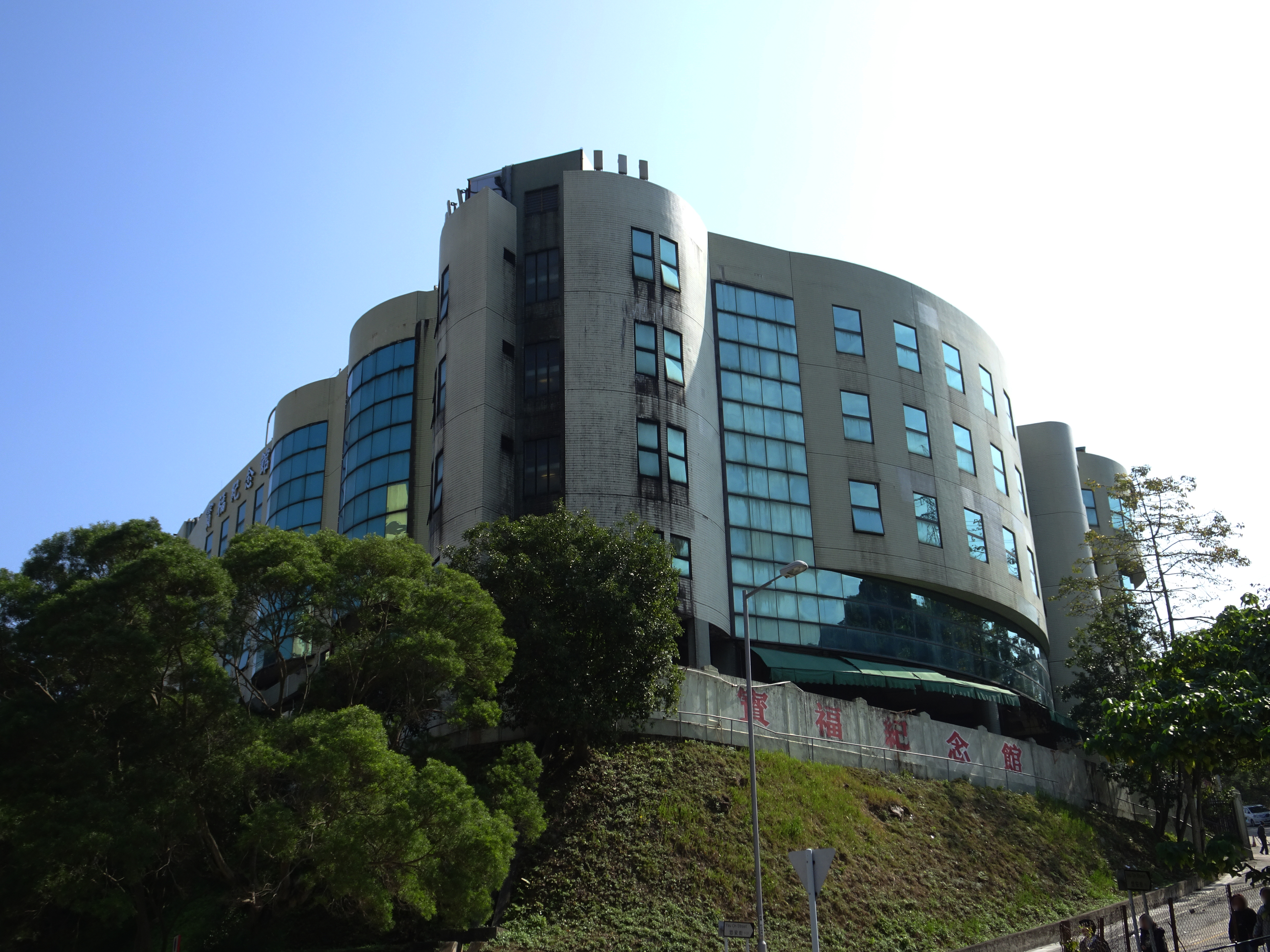 Po Fook Memorial Hill in Tai Wai, Hong Kong.